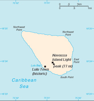 File:Navassa Island-CIA WFB Map.png, with a few infos added: Lulu Town, Navassa Island Light, peak (77 m)